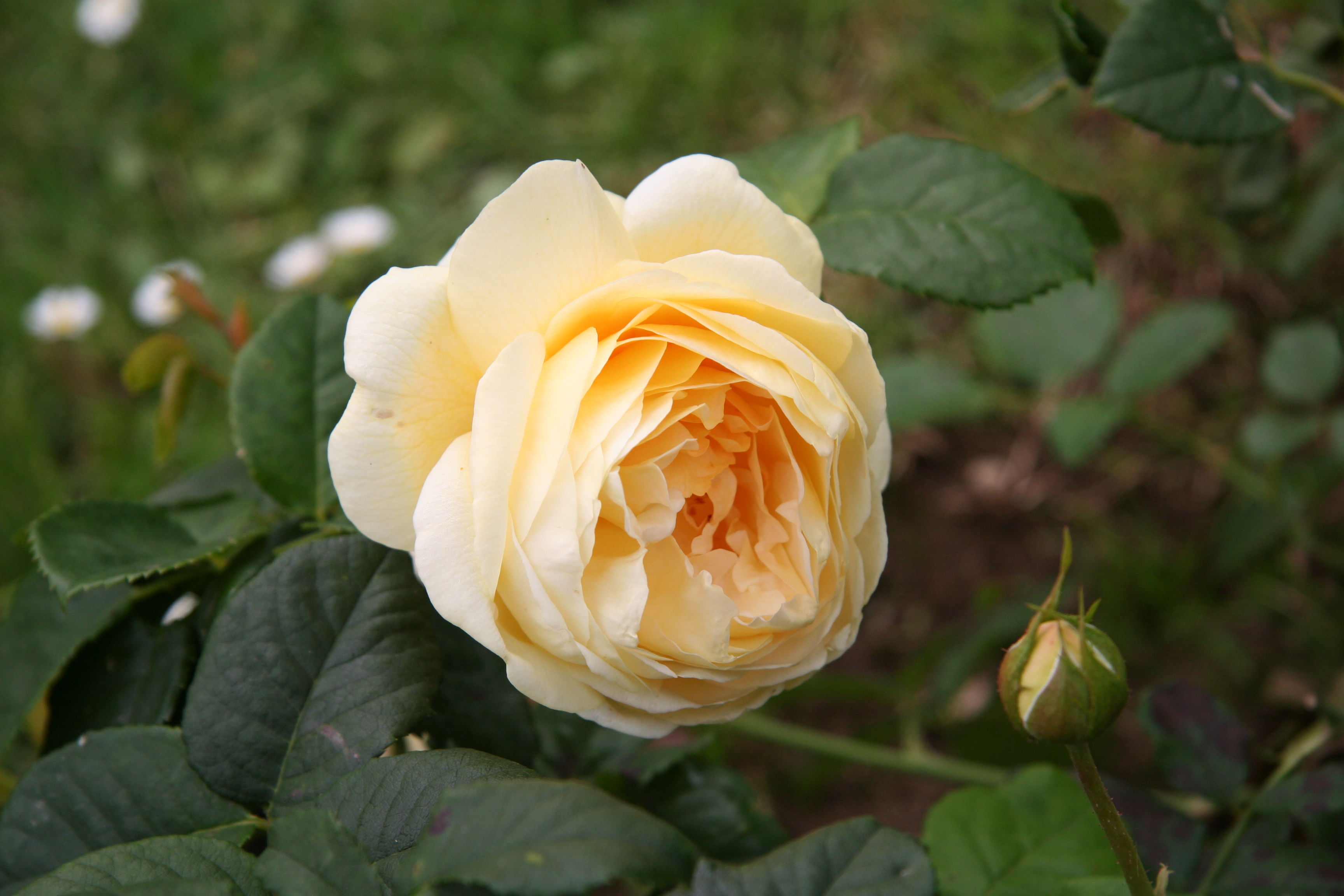 Juliette Gréco rose - Bagatelle Rose Garden (Paris, France).